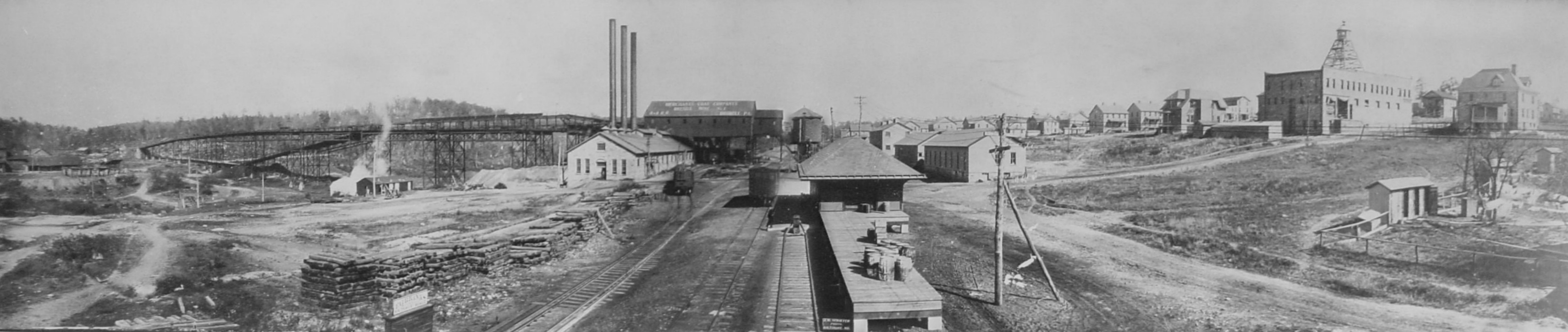 A view of Boswell in its prime: The coal tipple can be seen crossing the left side of the photograph. Near the center-left is the steam engine that pulled the cars on the tipple. In the center is the power plant with its three smokestacks. The railroad tracks that ran through town can be seen in the center of the photograph. The foreman's home can be seen on the far right of the panorama..